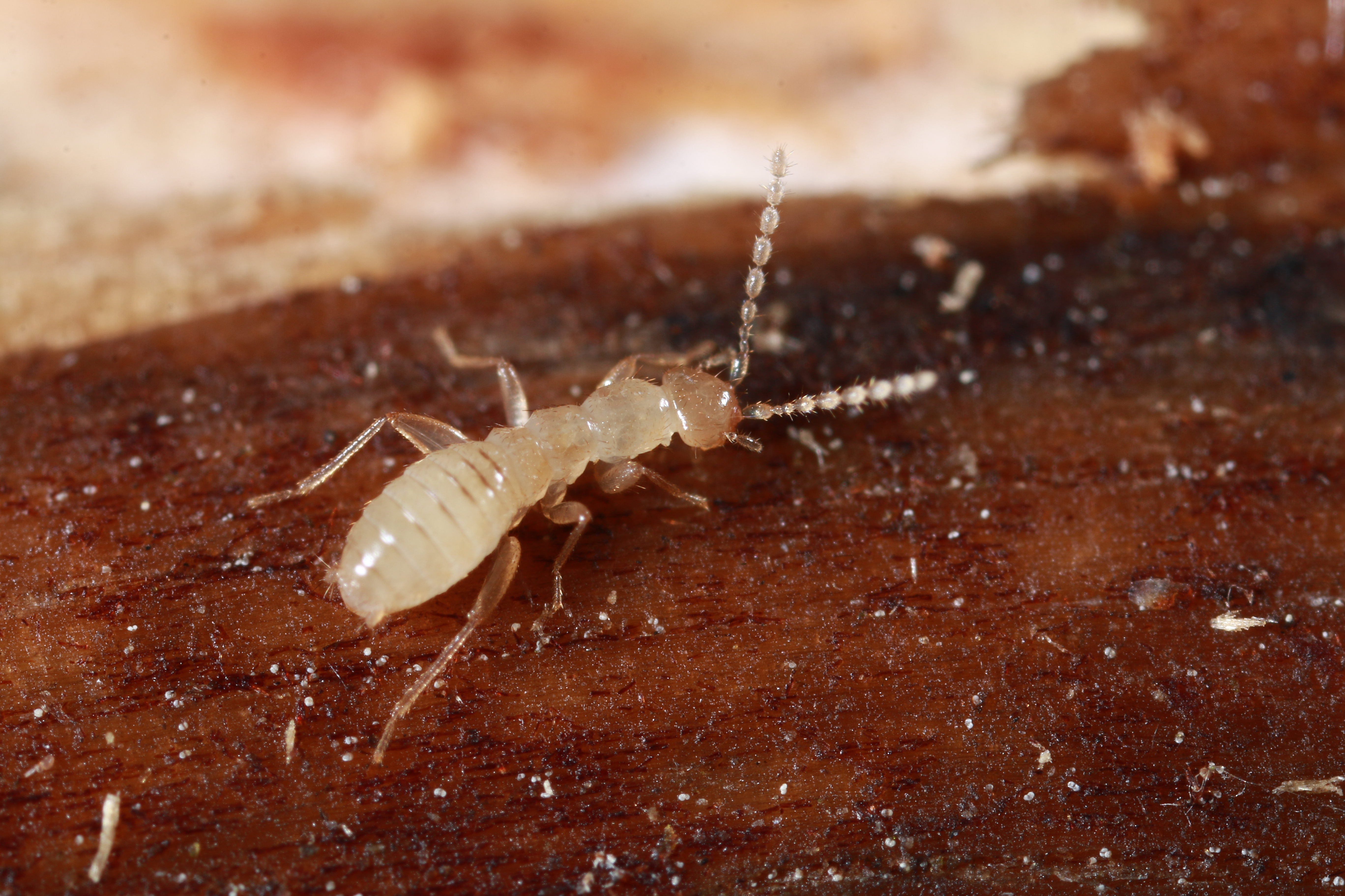 Zorotypus